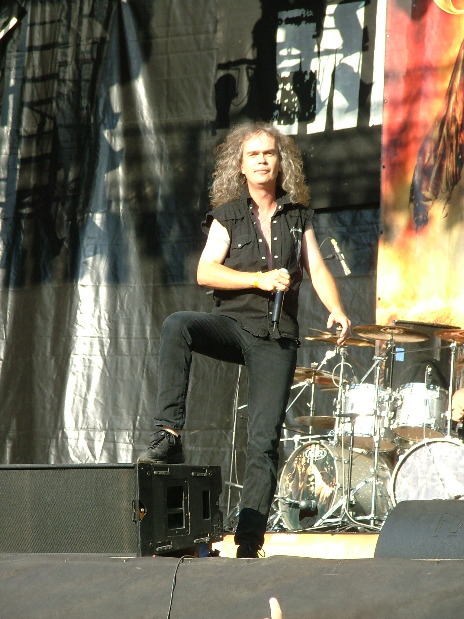 German true metal band Grave Digger at the Metalcamp in Tolmin